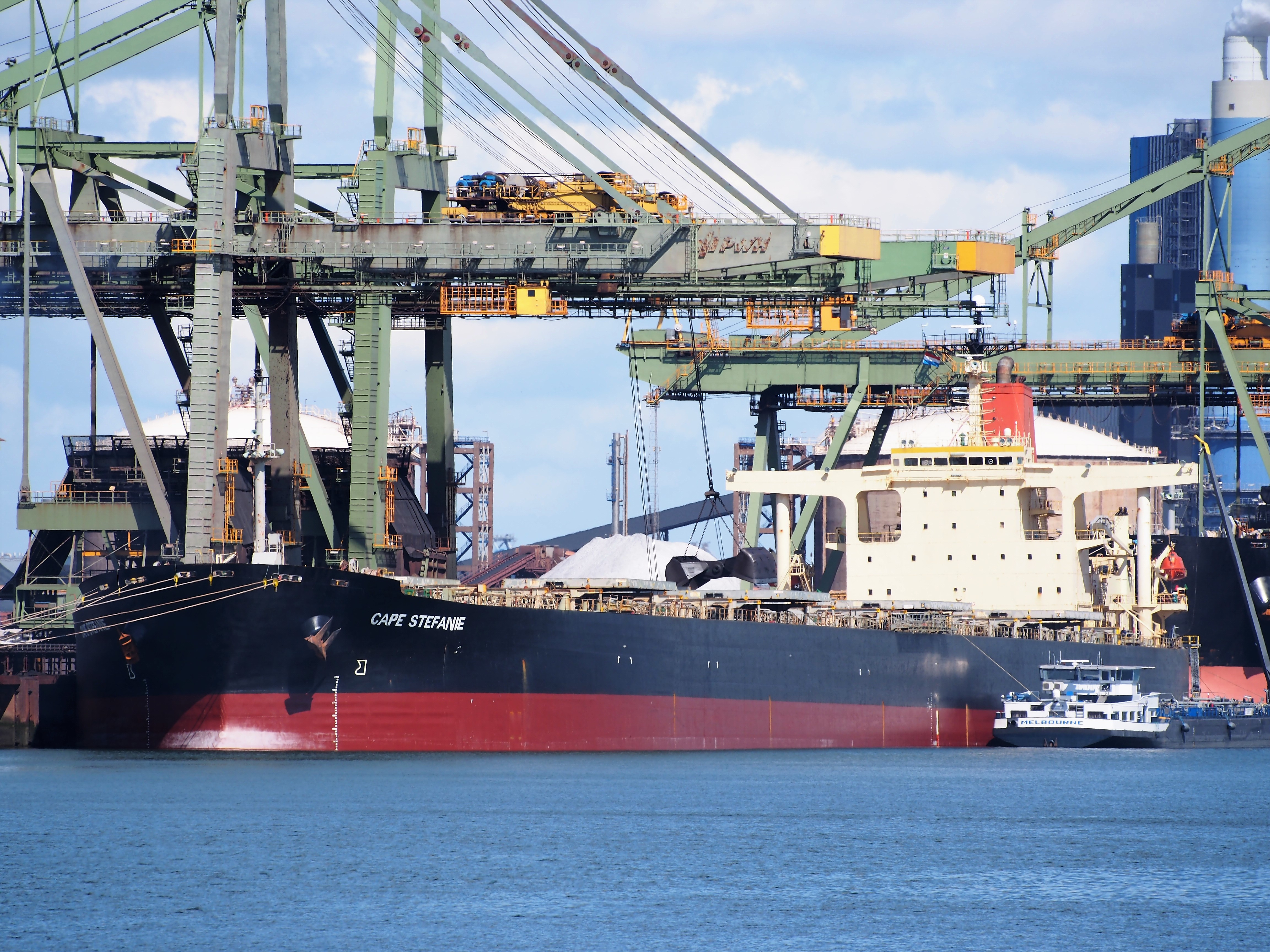 Photo taken at Port of Rotterdam, The Netherlands.